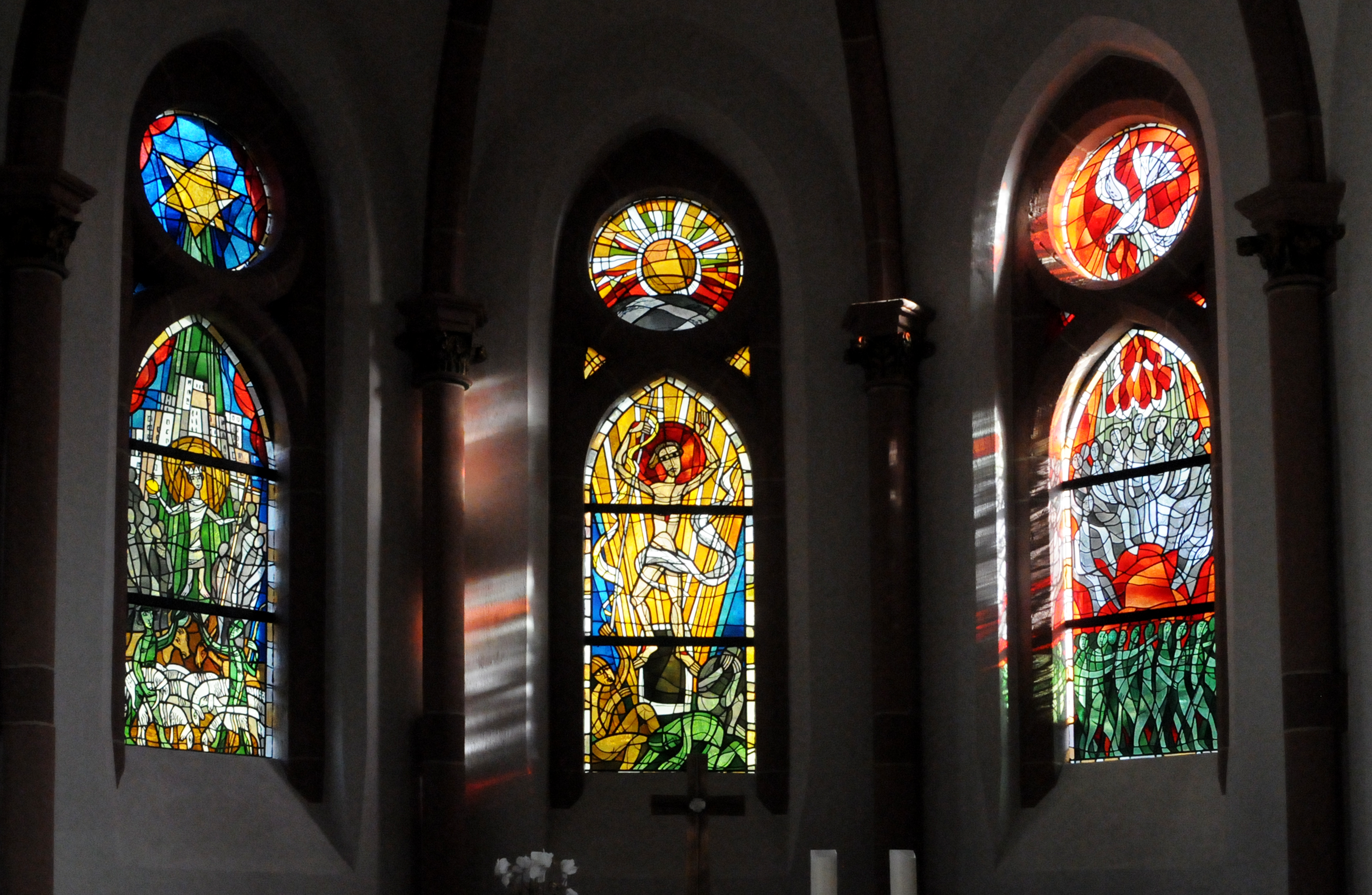 Protestant Church Saarburg: Stained glass windows For further use the following attribution is required: Artist: Werner Persy, Trier Manufacturer: Kaschenbach Glas-Kunstwerkstätten GmbH - Trier Photographer: Dorothea Witter-Rieder